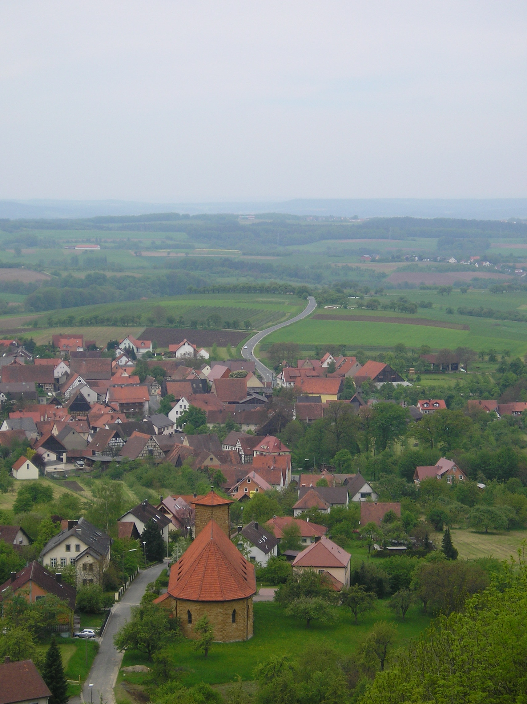 Closeup of the village of Weingarts (between Gräfenberg and Forchheim at the base of the Franconian Swiss mountain range, Germany) with the church in the middle of the image, viewed from above from the village of Regensberg. The twisting road in the upper middle leads from Weingarts to Kunreuth.